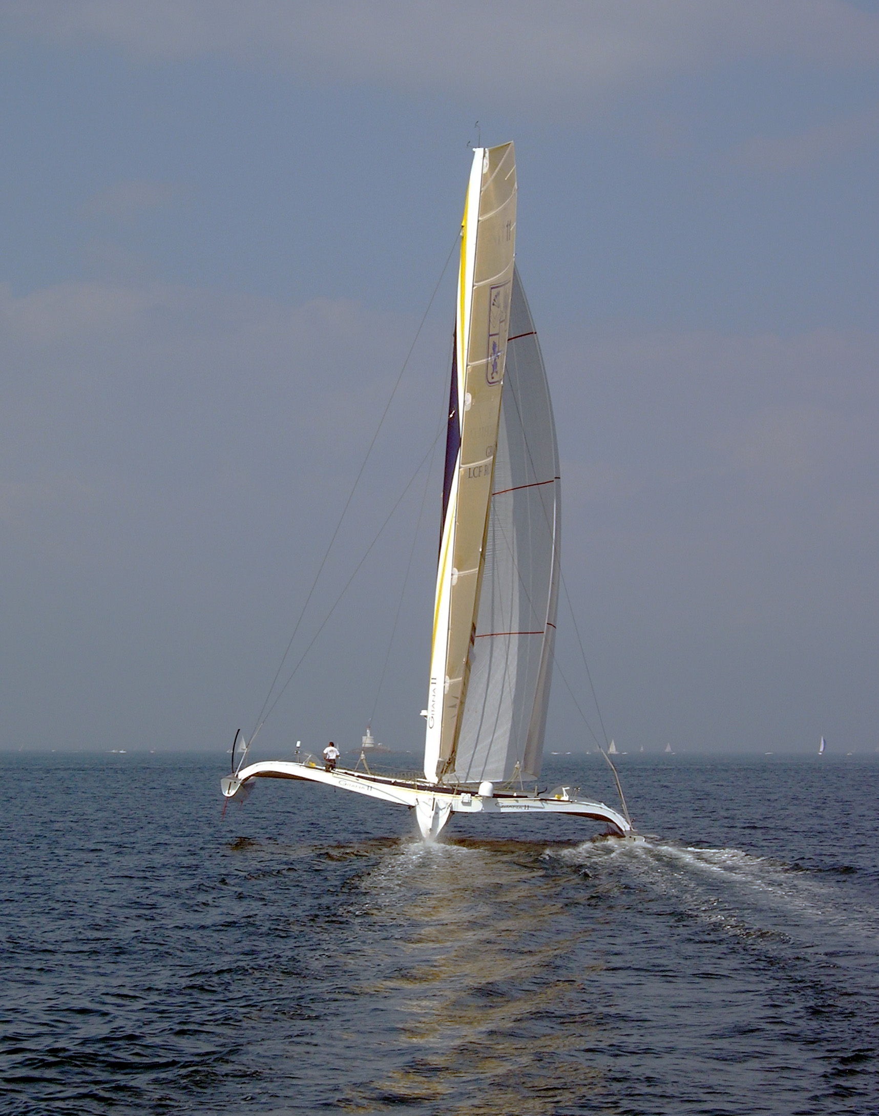 Description =Gitana 11 dans la baie de Quiberon Source =Photo taken by Remi Jouan Date =Aout 2006 Author =Remi Jouan